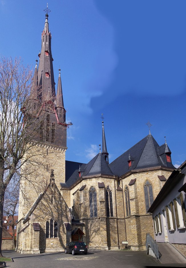 Gau-Algesheim. Pfarrkirche St. Cosmas und Damian. Note combined image from 7 photographs with distortion due to height.